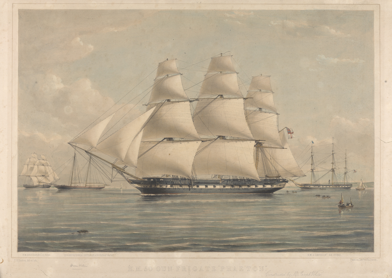 H.M. 50 gun frigate Phaeton constructed by Mr Joseph White Note: HMS Amphion shown as 36 guns, she was reduced to 30 in 1848, So image is 1848, though published 1850 Hand-coloured. H.M. 50 gun frigate Phaeton constructed by Mr Joseph White